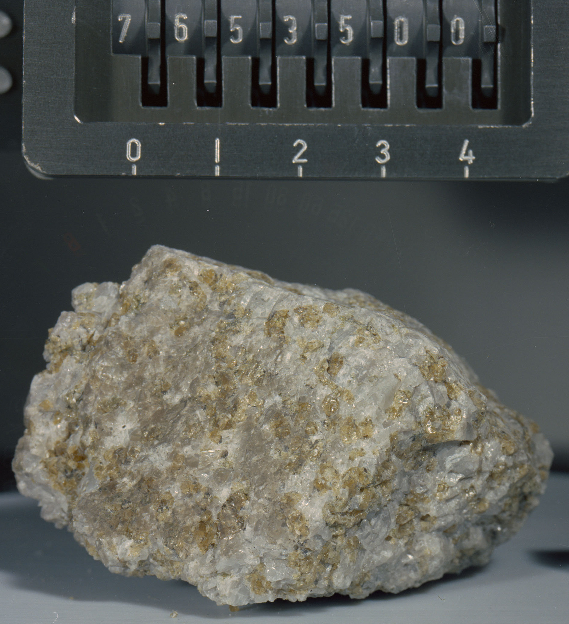 Troctolite sample brought back from the Moon by Apollo flight 17 "This sample has a mass of 156 grams and is up to 5 centimeters across"